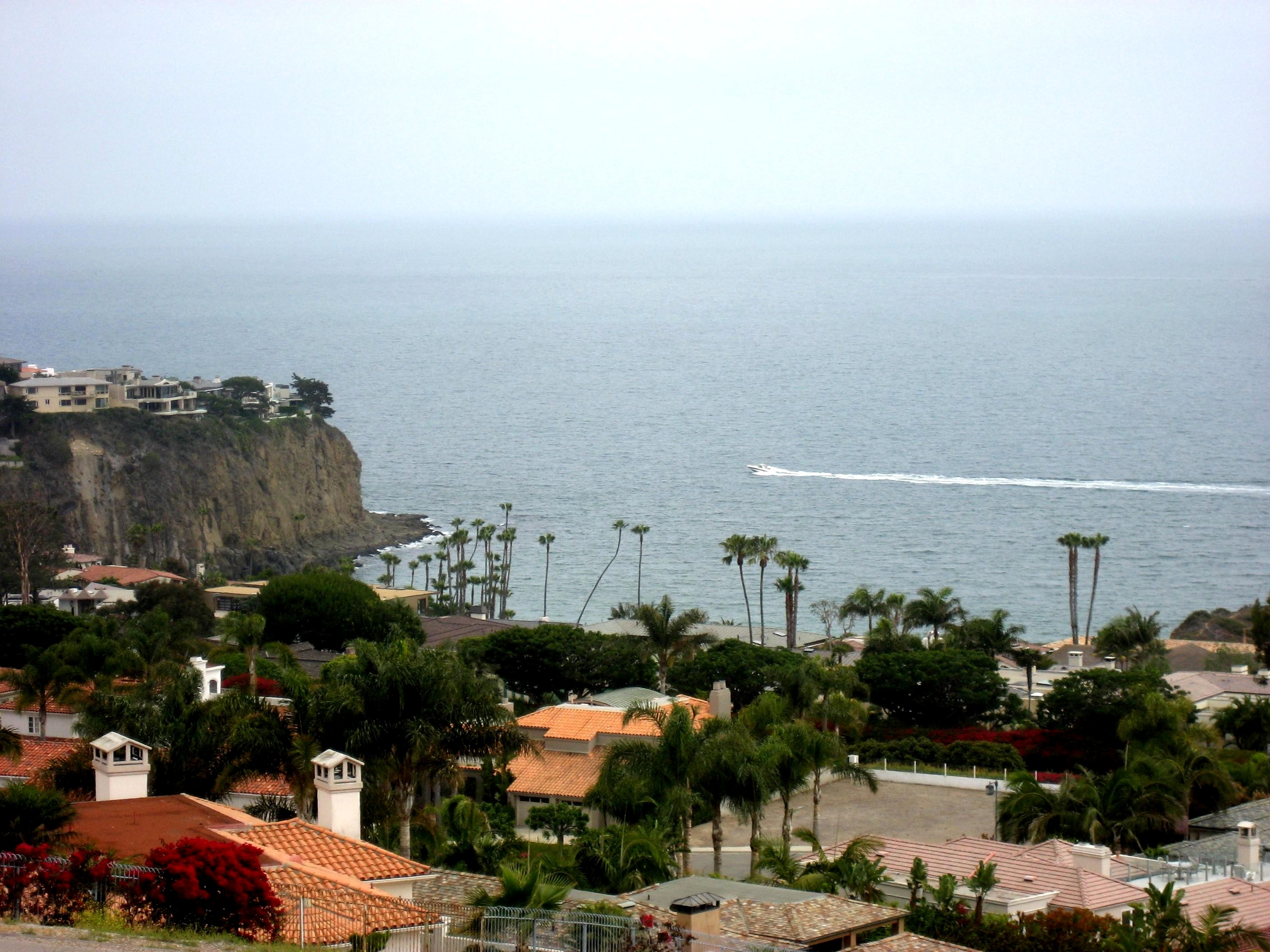 Laguna Beach, as viewed from Crystal Cove